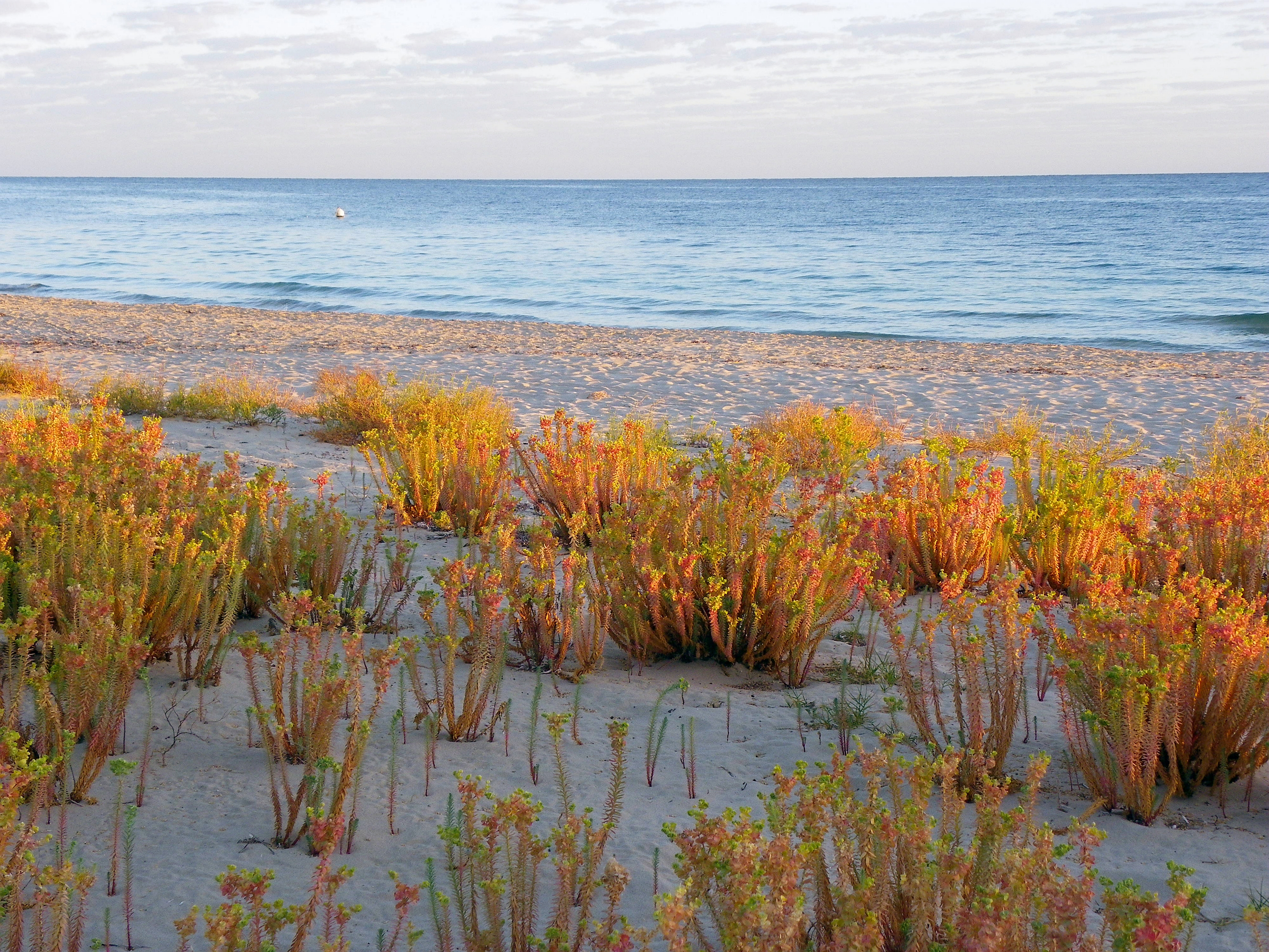 Sea spurge (Euphorbia paralias) is an invasive beach plant originating in Europe.